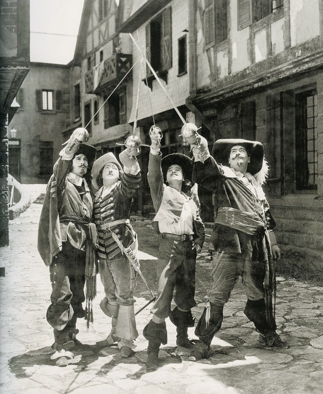 Left to right: Léon Bary, Eugene Pallette, Douglas Fairbanks, and George Siegmann in the American film The Three Musketeers (1921) - publicity still